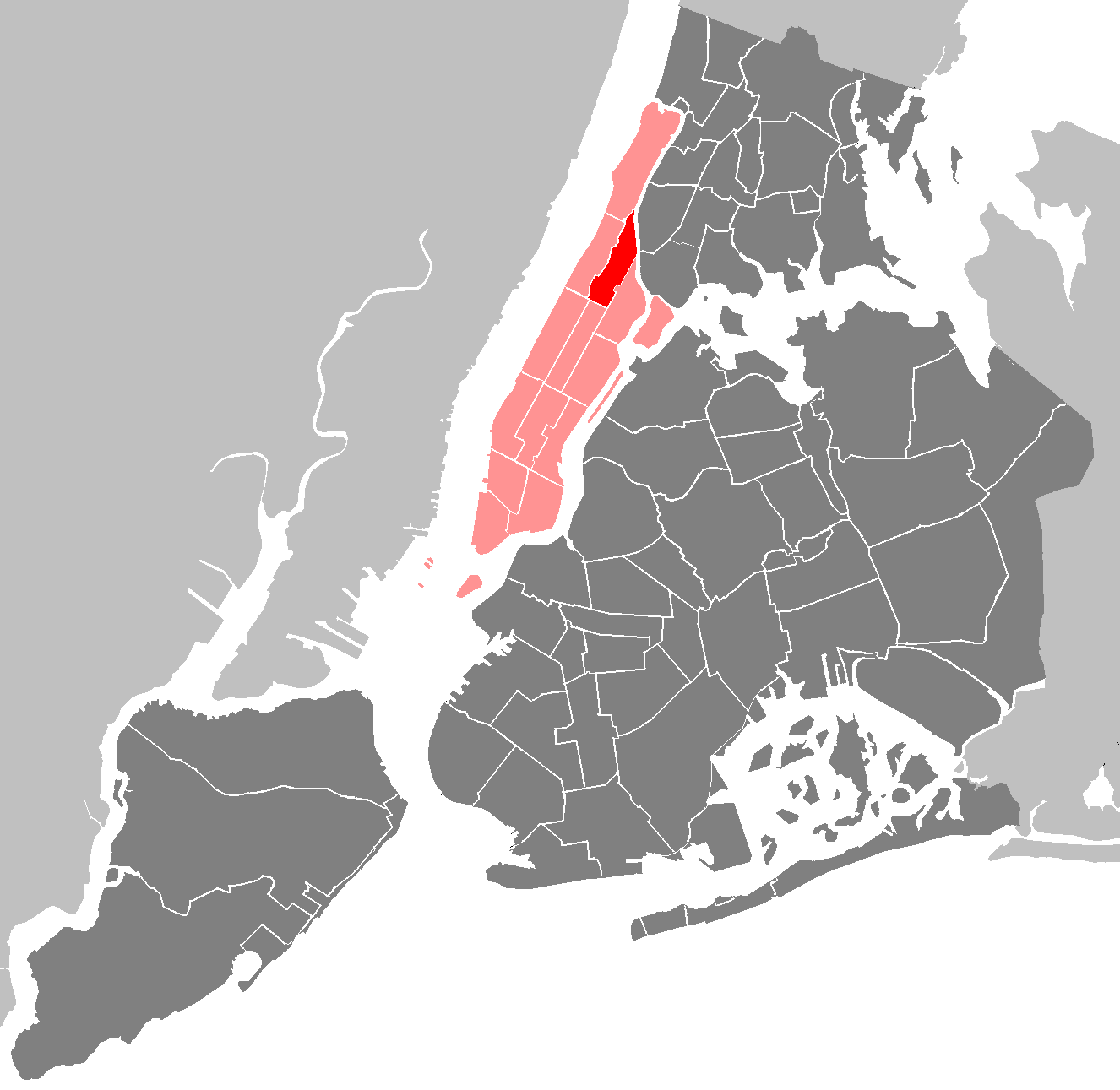 Category:Maps of New York City: New York City - Manhattan - Community Board 10.PNG